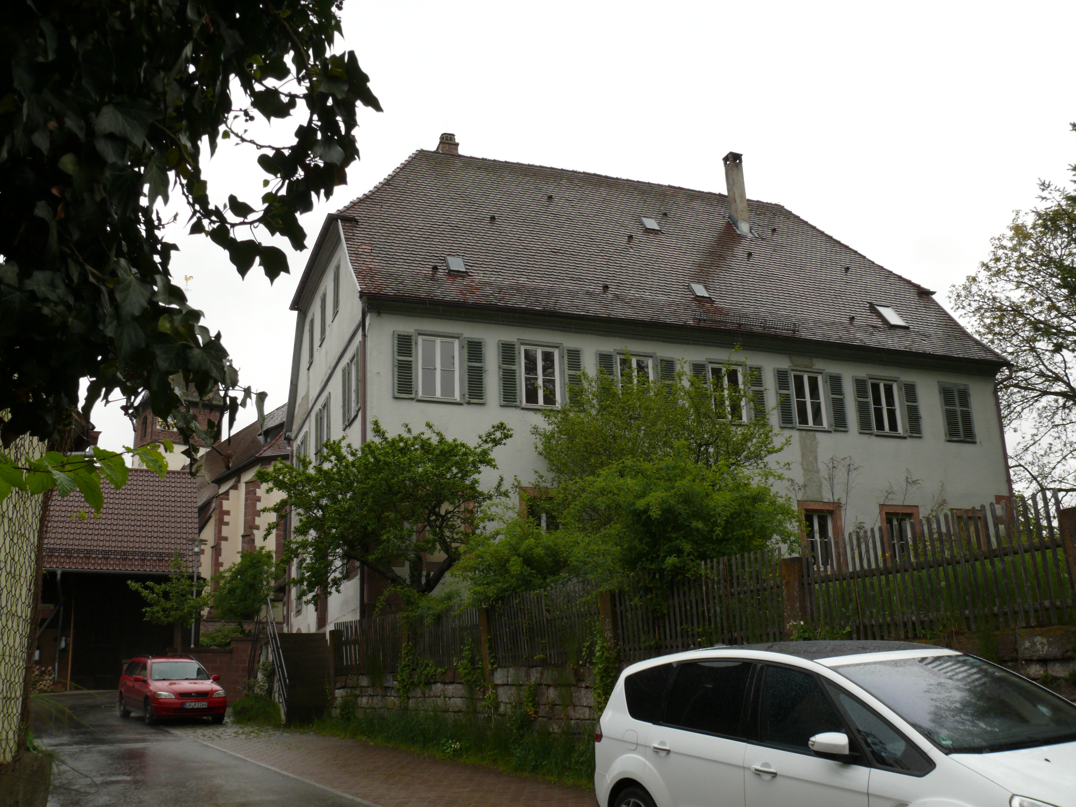 View of protestant rectory in Altburg, a district of Calw (Baden-Württemberg, Germany), seen from ESE.